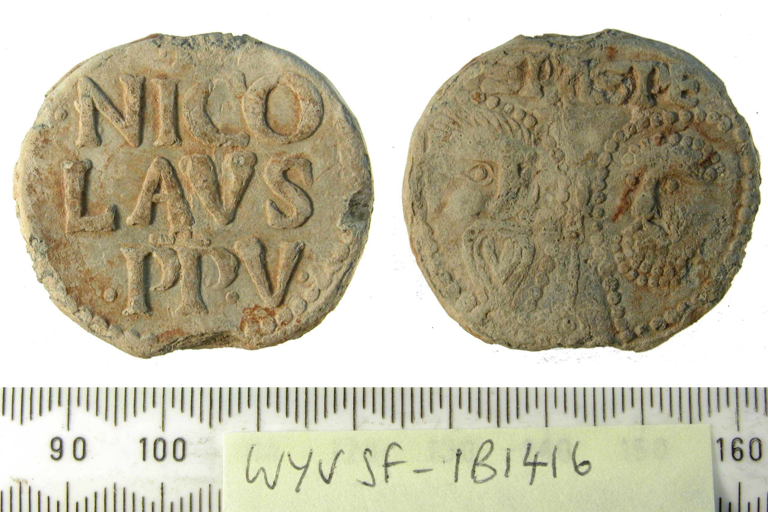 A complete lead papal bulla of Pope Nicholas V, born 1397, Pope 1447-1455. Measuring 32.6mm in length and 37.2mm in width it is flat and 4.8mm in thickness. The obverse reads, NICO/LAVS/PP.V, on the reverse there are the portraits of St Paul and St Peter with SPASPE, for each Saint respectively, above them. They are in beaded surrounds, and St Peter has a beaded beard, whereas St Pauls beard is grooved, there is a cross between them.